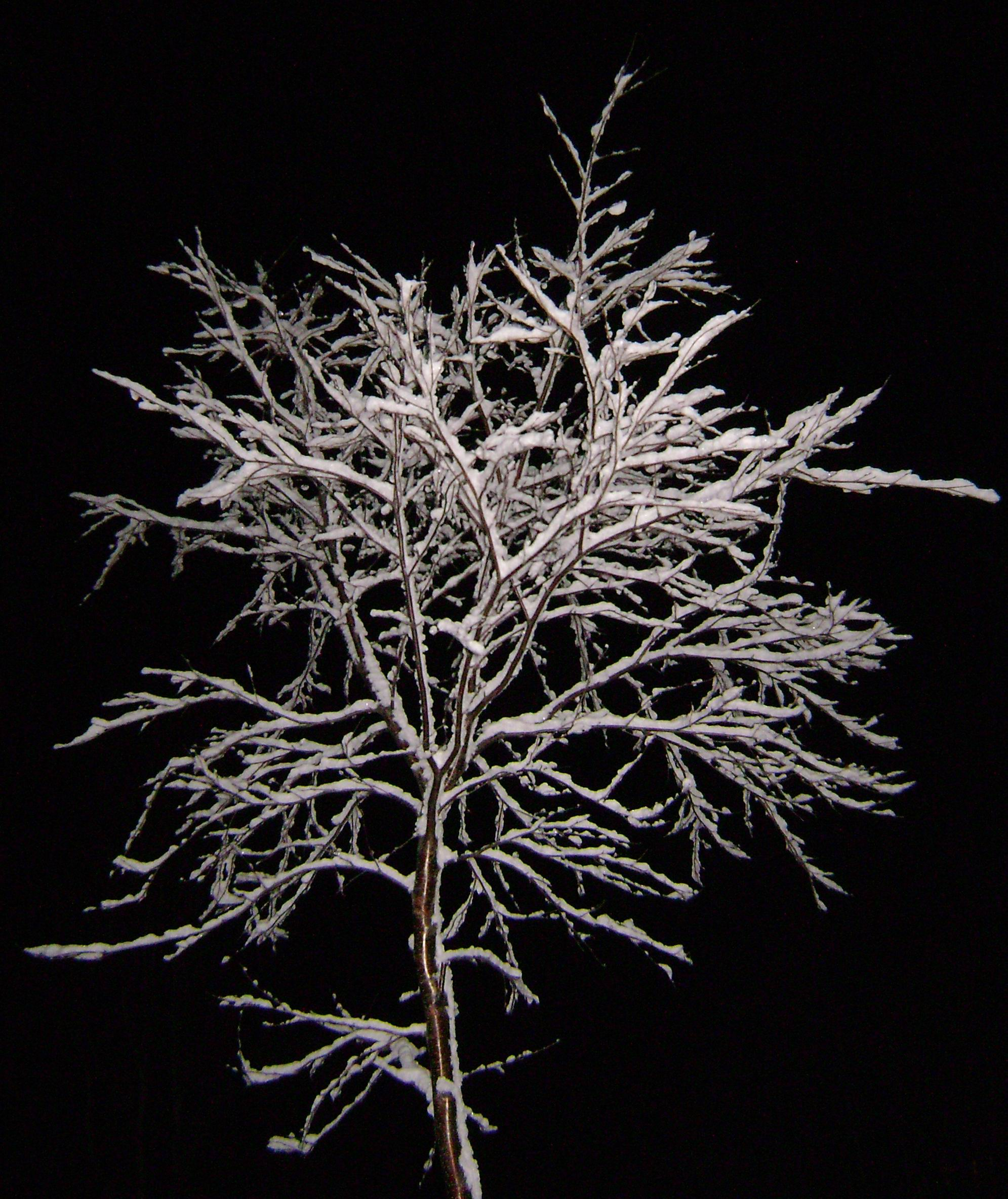 Snow on a birch